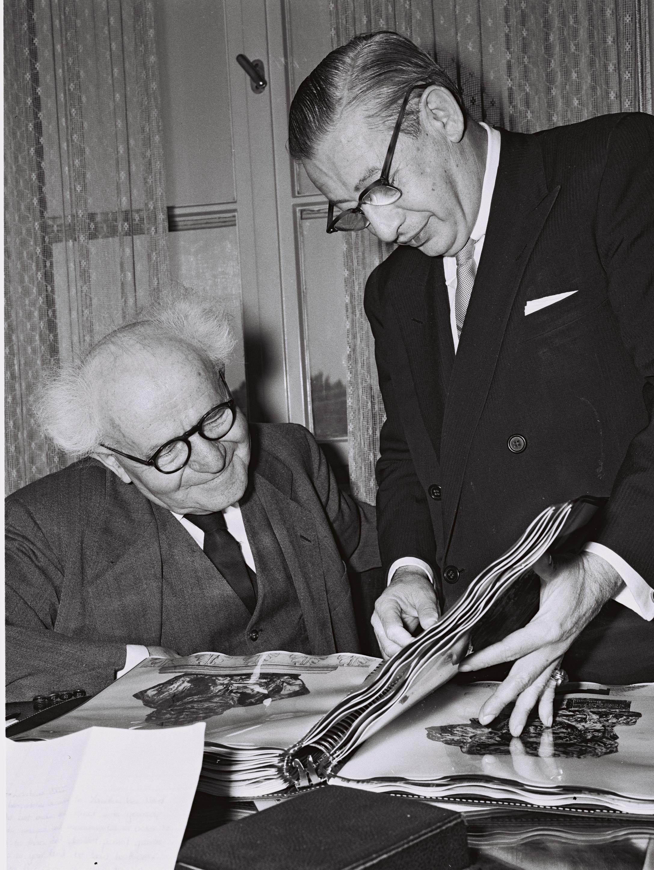 DAVID BEN GURION RECEIVING ZIONIST PHILANTROPIST BILLY ROSE AT HIS OFFICE IN THE MINISTRY IN TEL AVIV